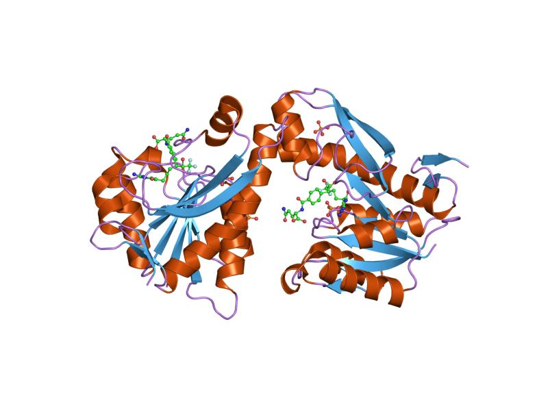 Cartoon representation of the molecular structure of protein registered with 1rbm code.